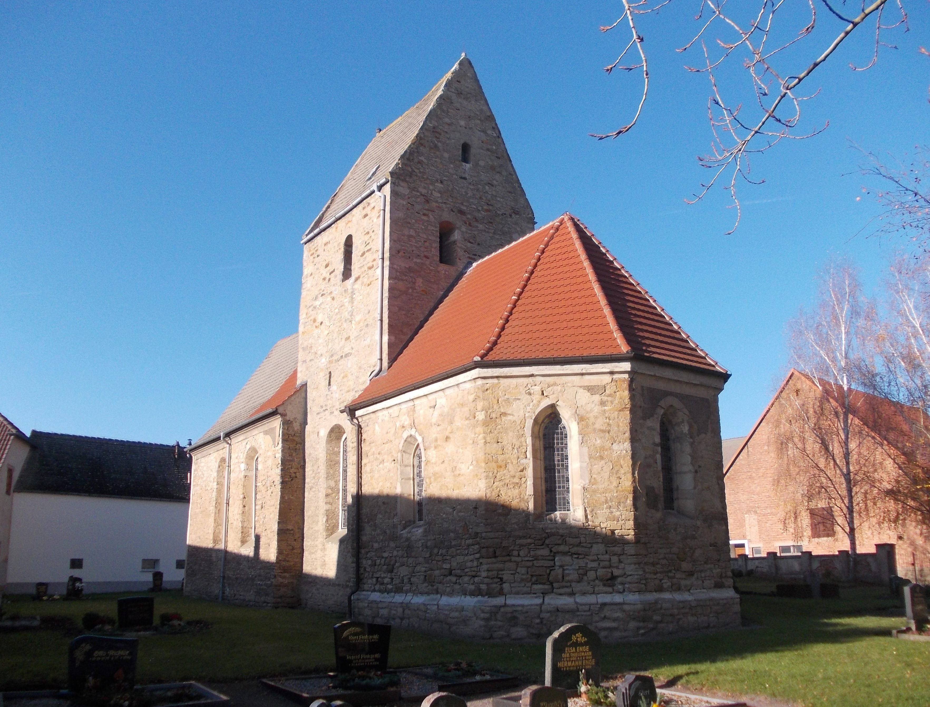 St. Thomas' Church in Blösien (Merseburg, district: Saalekreis, Saxony-Anhalt)